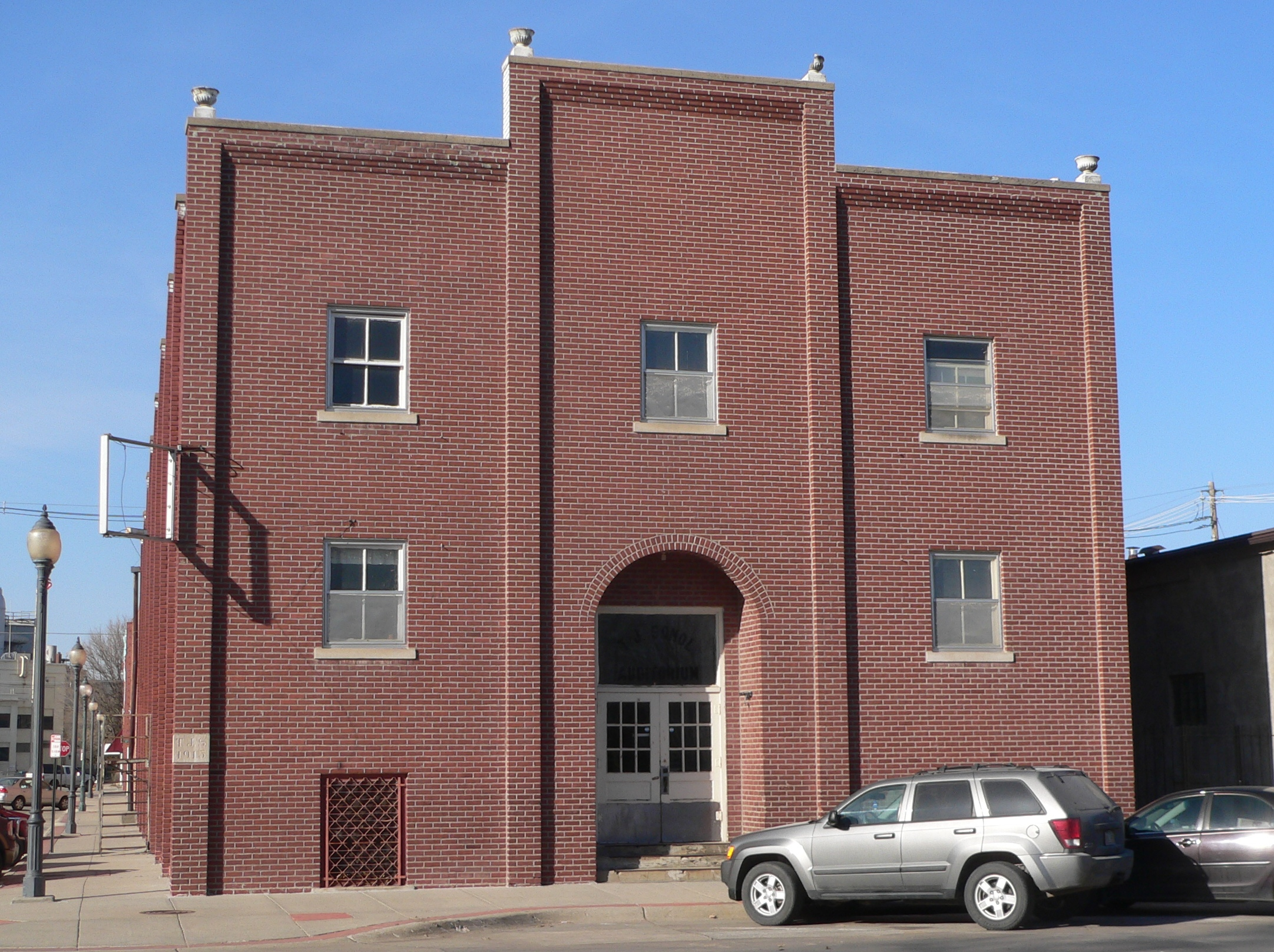 T. J. Sokol Hall, located at northeast corner of 12th Street and Norman Avenue in Crete, Nebraska; seen from the south, across 12th.